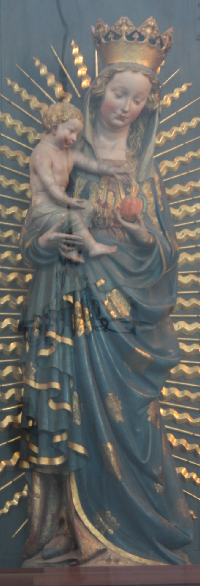 Gdańsk St. Mary's Church. Beautiful Madonna